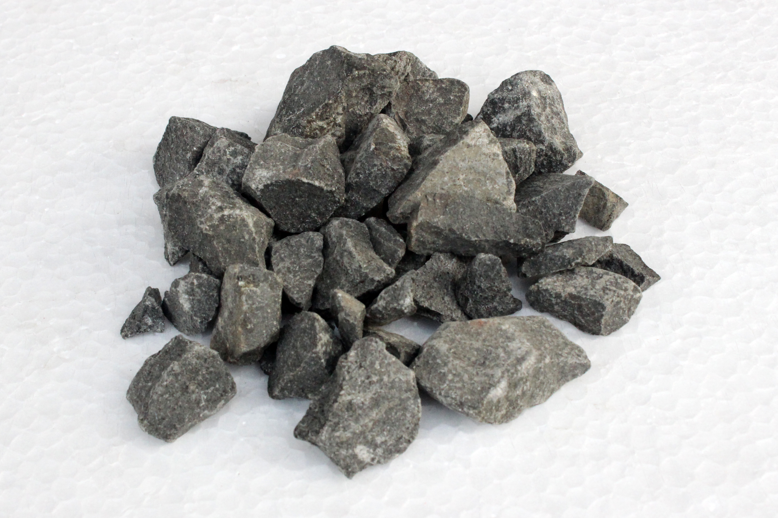 20mm gravels for road construction RCC structures